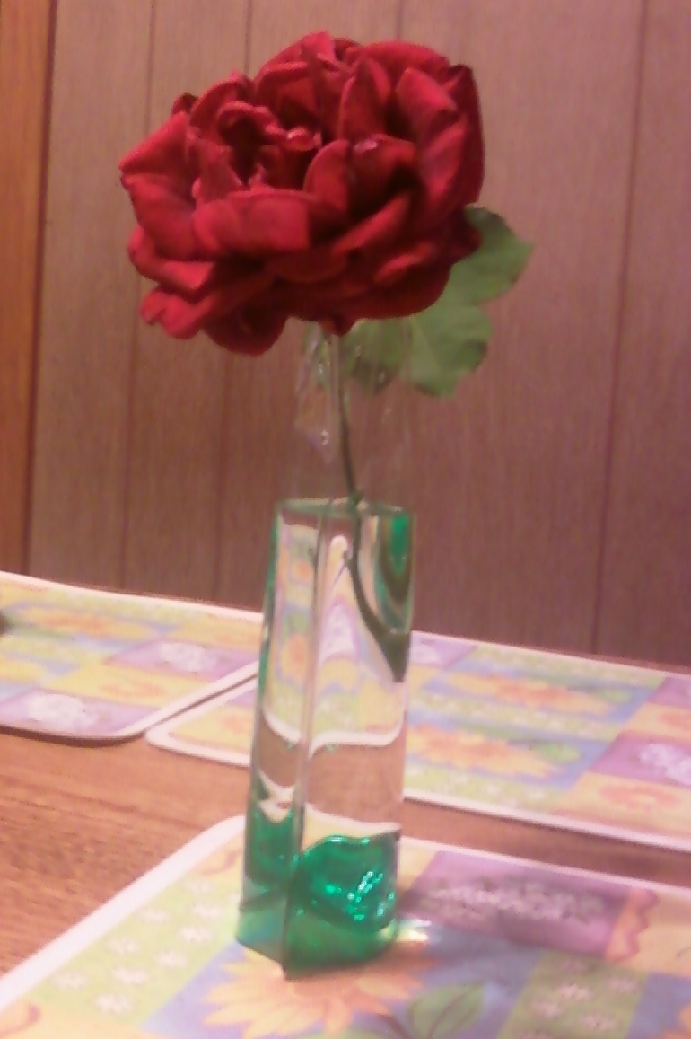 Single red rose in collapsible vase